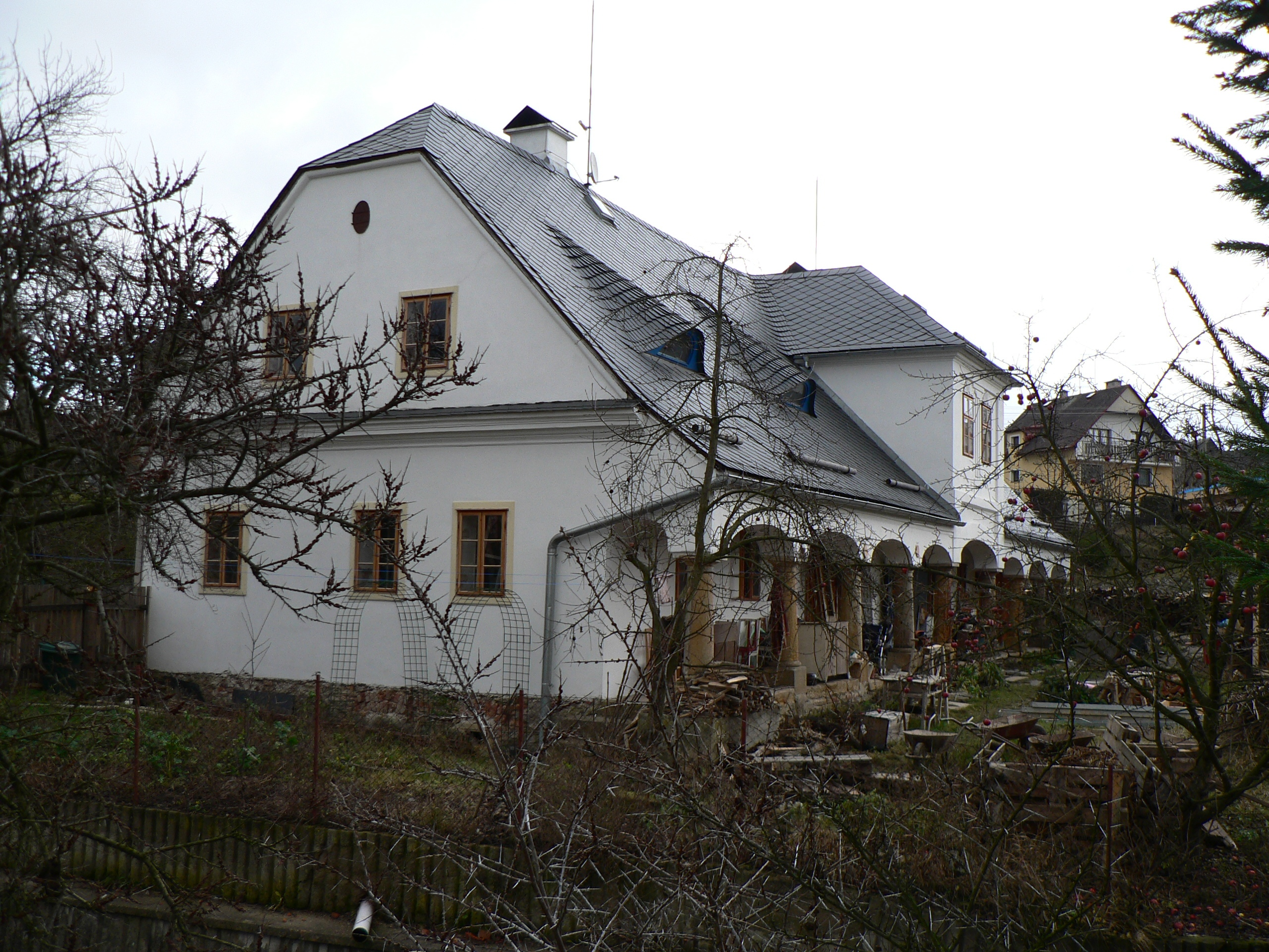 Rohle, Šumperk District, Czechia.